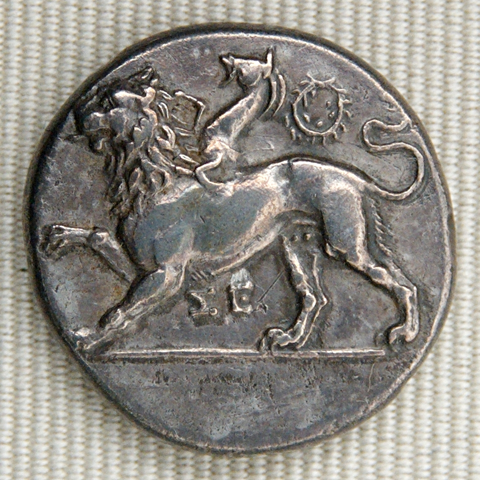 Silver didrachm of Sicyon in Peloponnesus, ca. 380 BC; obverse: Chimera to the left.